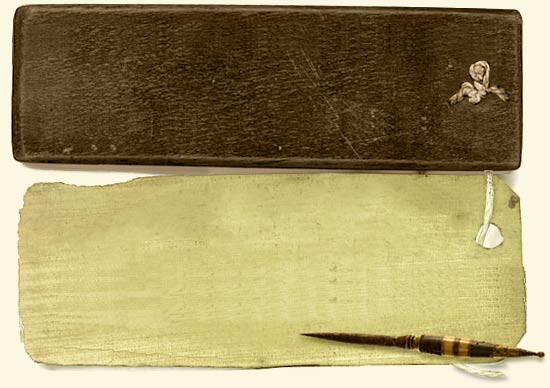 Thaliyola